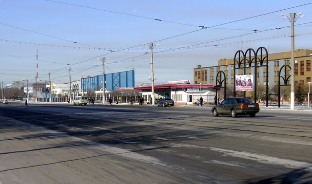 Temirtau city (Kazakhstan) at winter. The photo is created by User:Andrew Bronx